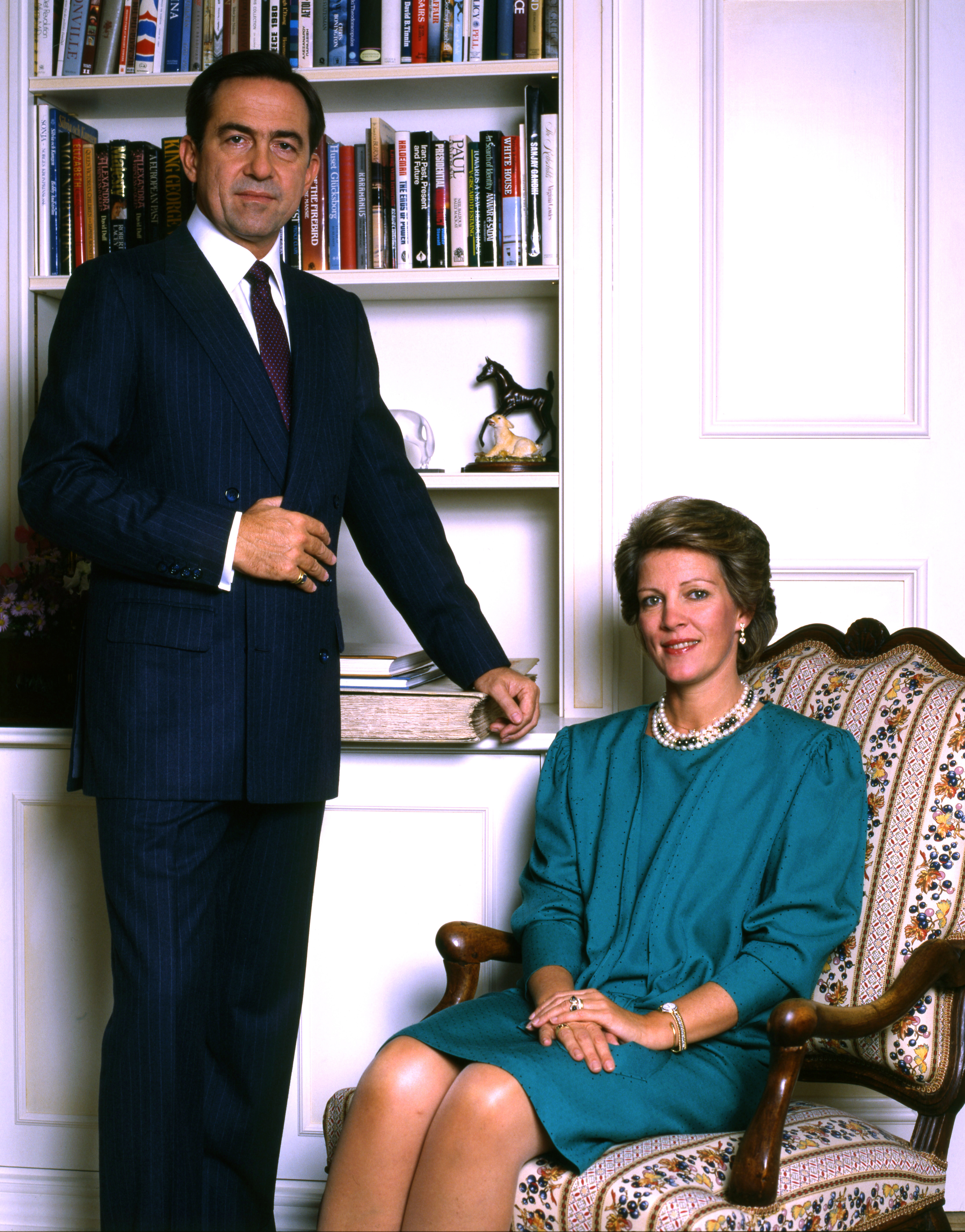 portrait of The former King Constantine & Queen Anne Marie of Greece.